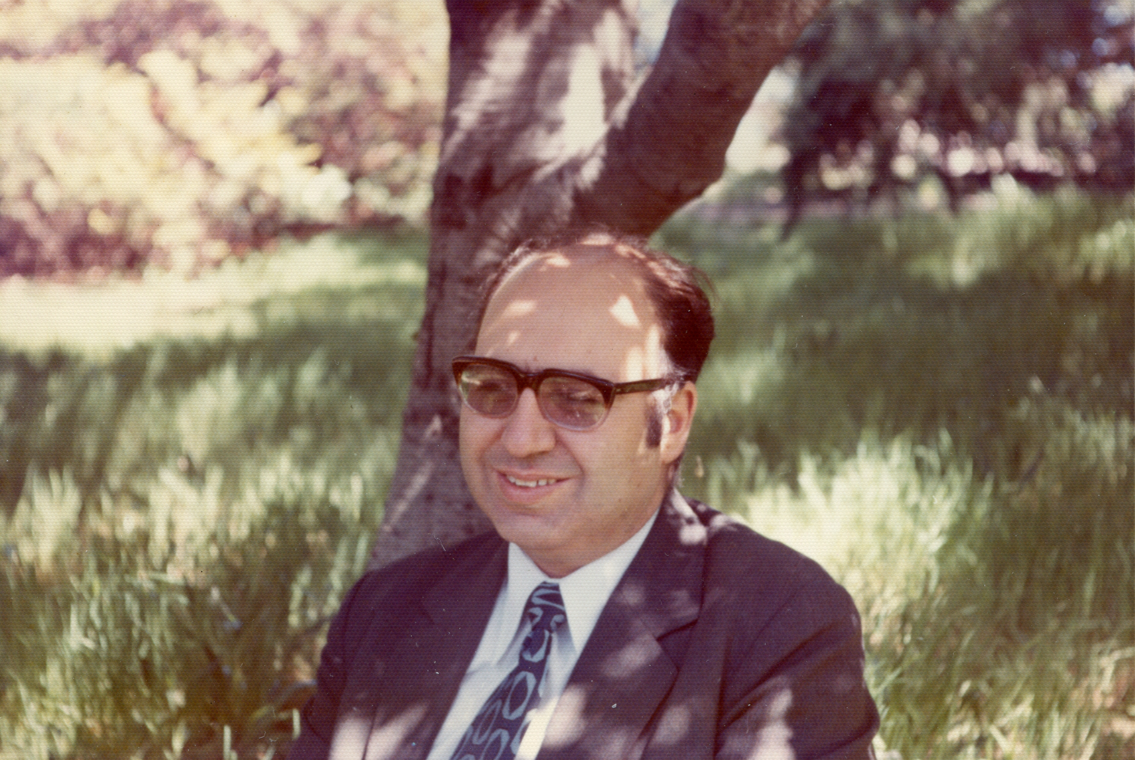 Rolando B. Chuaqui at Berkeley, California (presumably UC Berkeley) in 1973